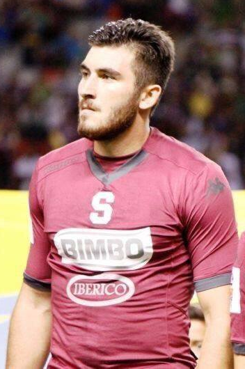 Photo of Ramon Martin Del Campo